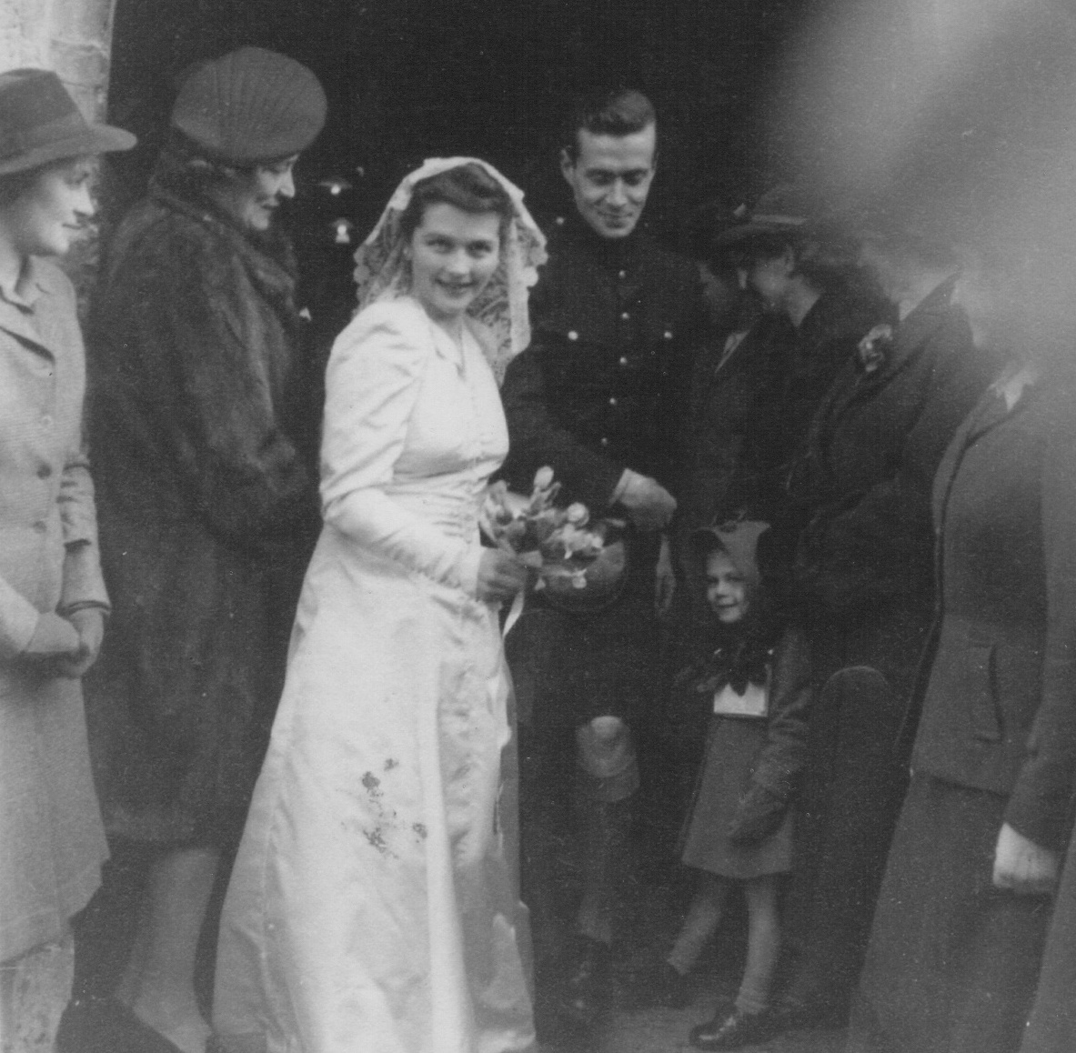 William Rose and Tania Price leaving their wedding in 1944.